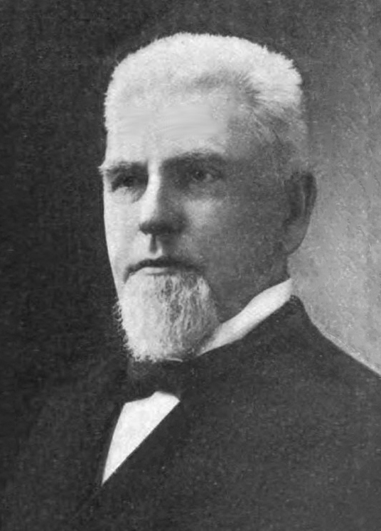 John J. De Haven (March 12, 1849 – January 26, 1913) was a U.S. Representative from California.